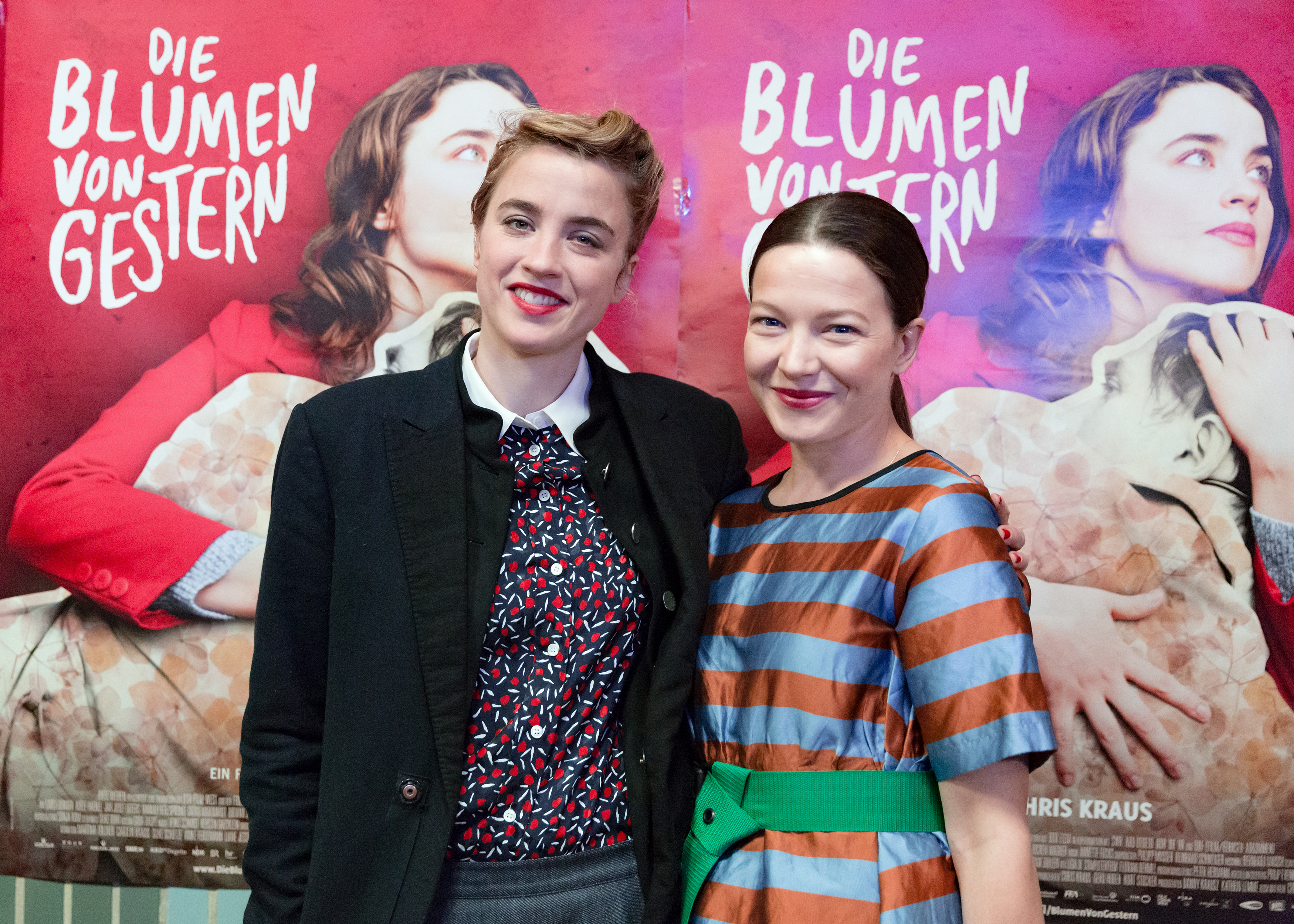 Adèle Haenel und Hannah Herzsprung at the Austrian premiere of Die Blumen von gestern at Gartenbaukino, Vienna, Austria.